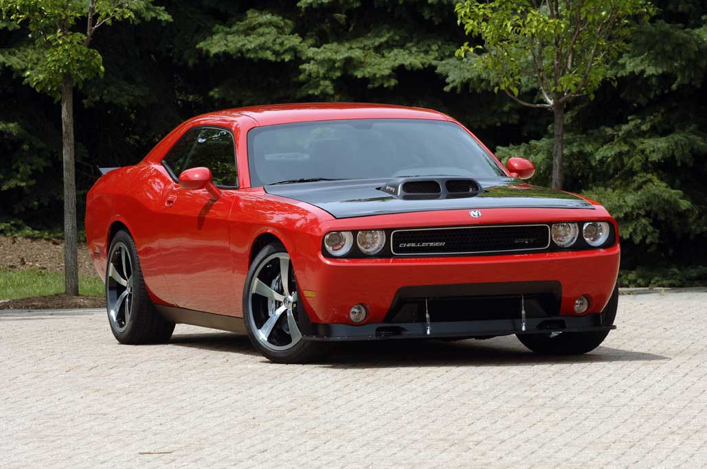 Dodge Challenger SRT10 Concept from SEMA.